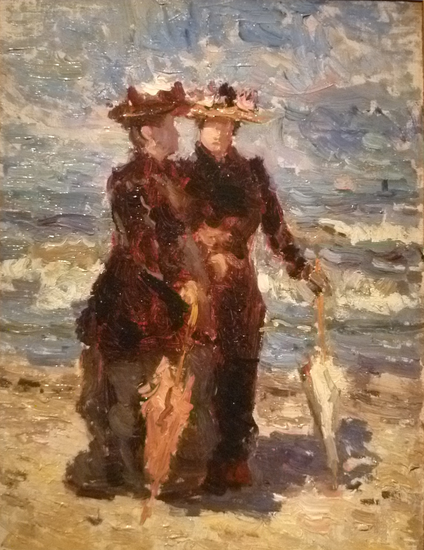 "Ladies strolling on the beach", oil on canvas (42 x 30 cm) by the Belgian painter Isidore Verheyden (1846-1905); private collection